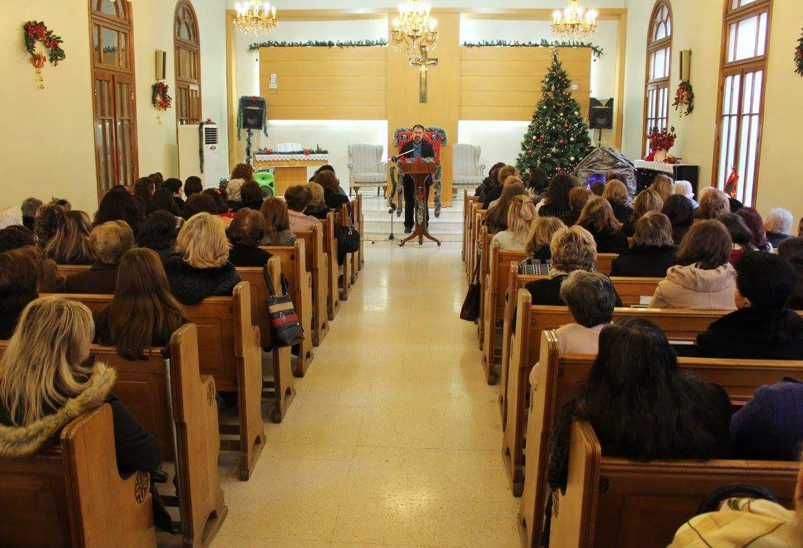 Martyrs' Church, Aleppo 26 Decmber 2017